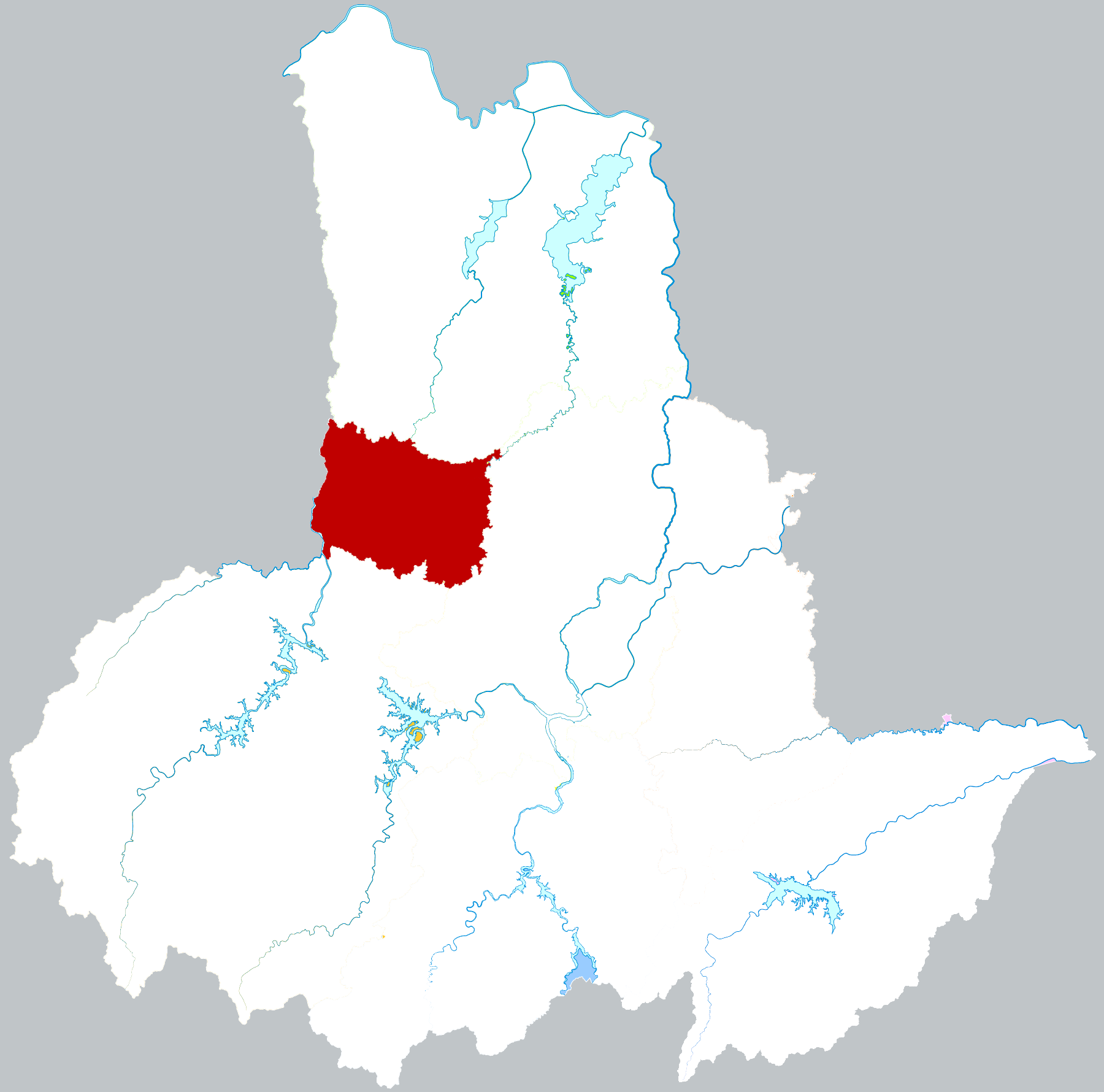 Location of Yeji district in Lu'an city, China